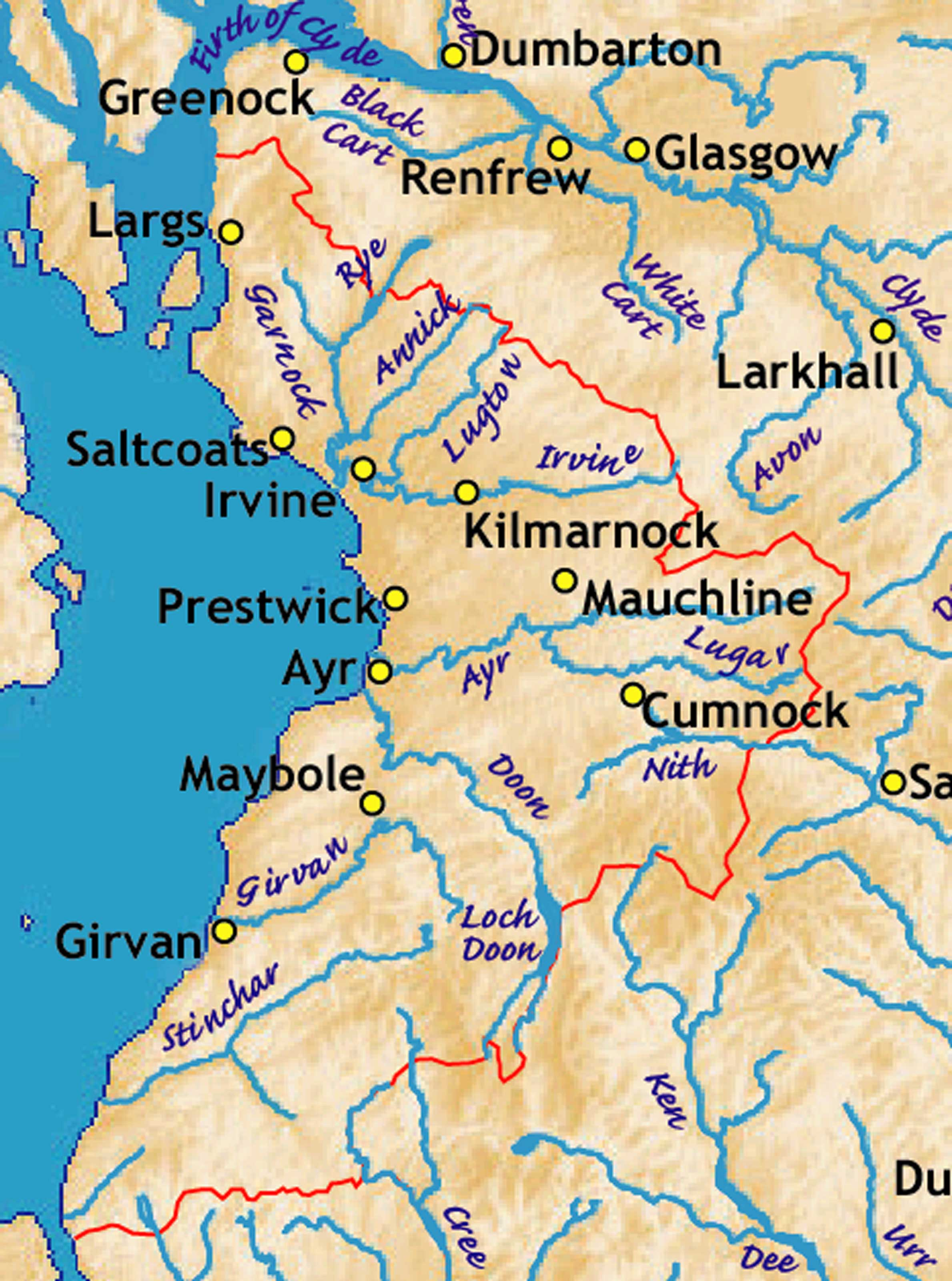 Ayrshire, with rivers and some towns